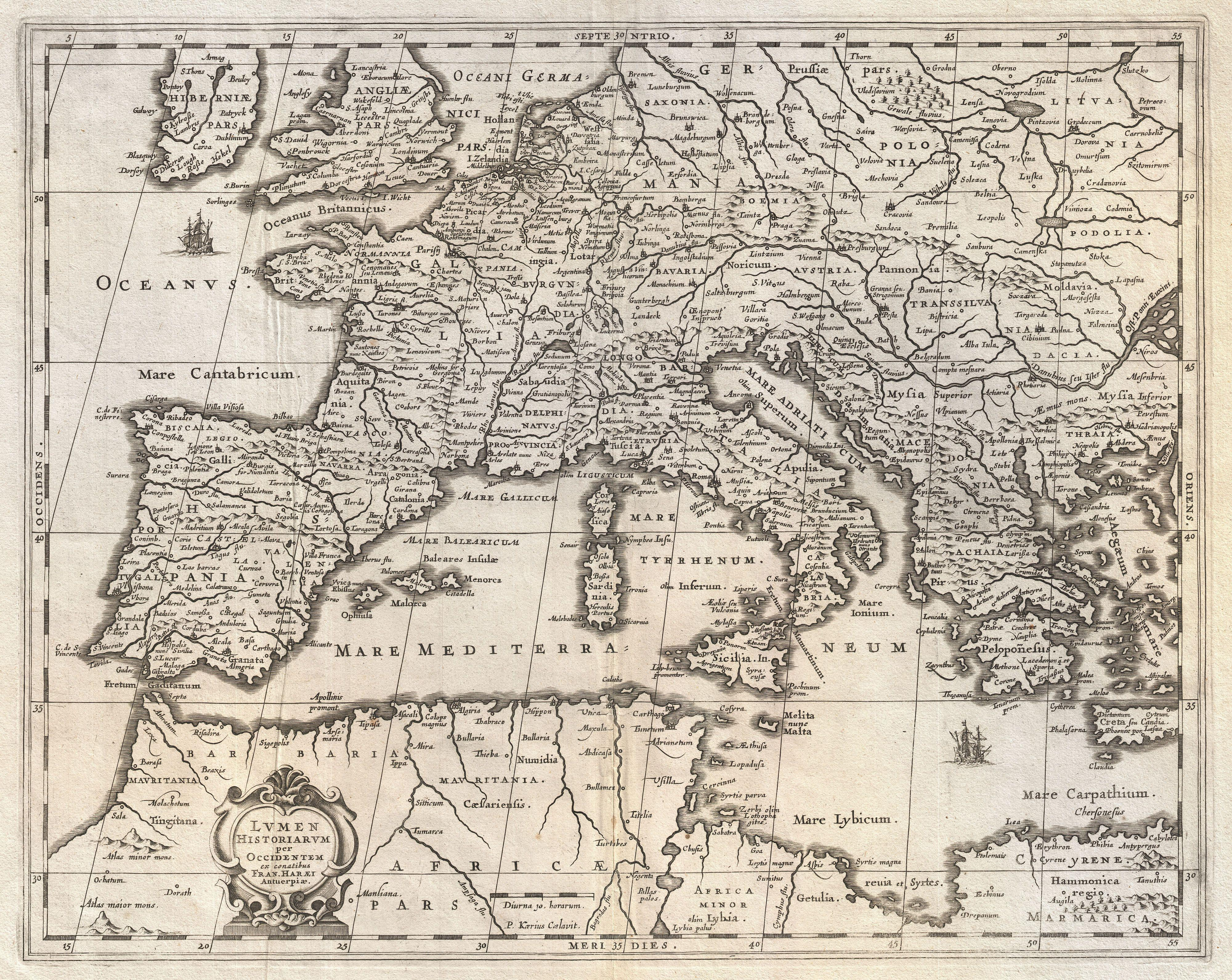 An exceptional c. 1652 map of Europe by Jan Jansson. Centered on Italy, this map covers from Spain to Greece and from England to northern Africa. Designed by Frans van Haren (Haraeus), a Dutch theologian and globe maker active from about 1615 to 1624. Depicts Europe as know to the Ancients. Cartographically this map exhibits heavy influence from a very similar map of the same name published by A. Ortelius in his 1597 Parergon . Based on Greek and Roman sources including Pliny, Strabo, Virgil, Caesar, and others. Ships and monsters decorate the seas. A decorative baroque title cartouche appears in the lower left quadrant. This remarkable map was published in volume six, the Orbis Antiquus , of Jan Jansson's Novus Atlas .